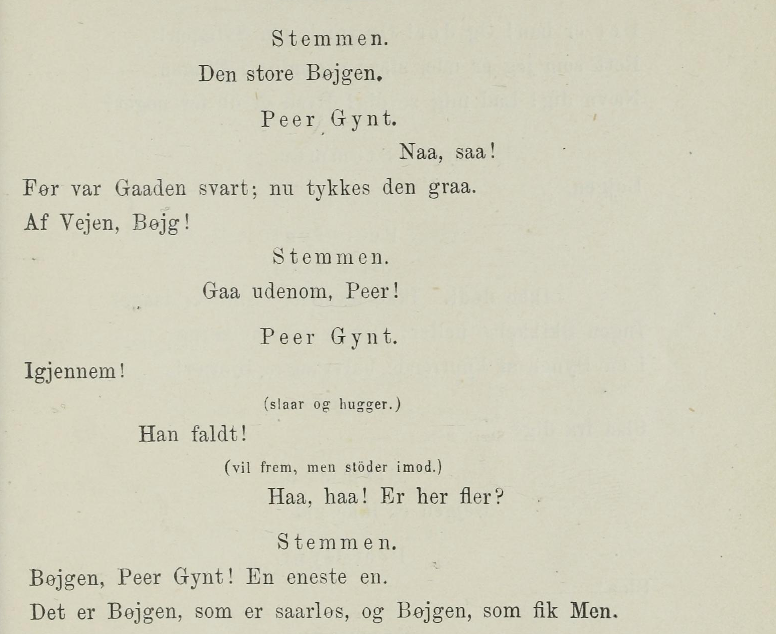 First edition of Ibsen's Peer Gynt